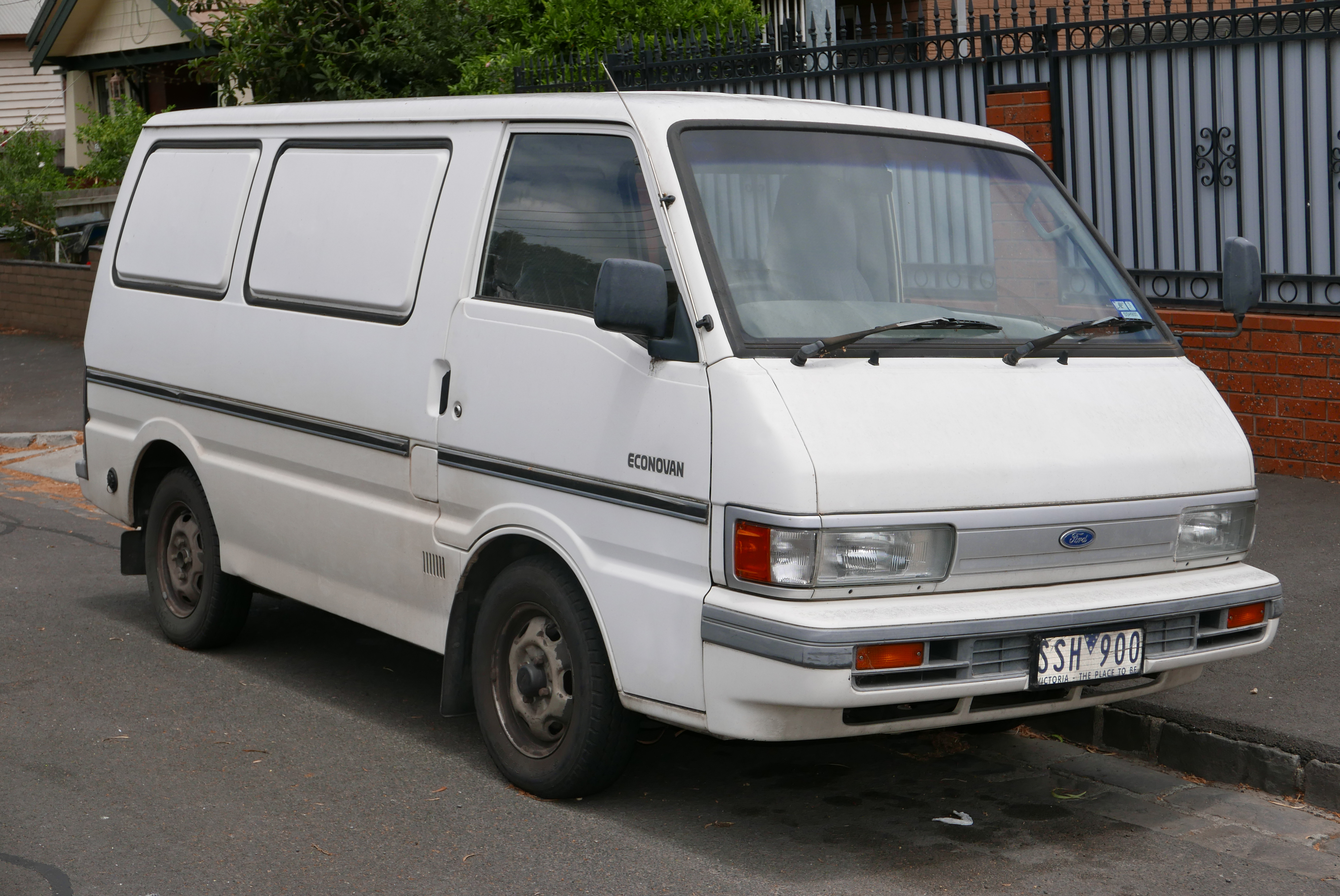 1999 Ford Econovan (JG) SWB van. Photographed in Brunswick, Victoria, Australia. Vehicle registration enquiry results Jurisdiction Victoria Registration SSH900 Chassis code JC0AAASGMEXY37684 Engine code FE349296 Compliance date 1999-07 Year of manufacture 2000 (not a typo)